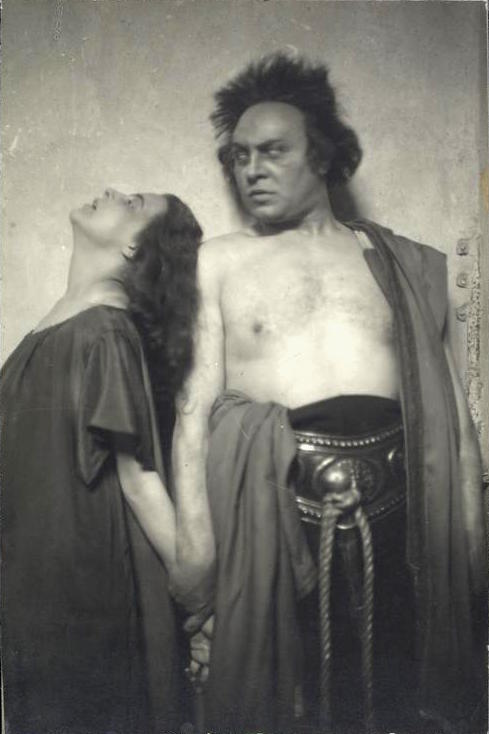 German theatre photography of the play Antigone by the German playwright Walter Hasenclever (1890-1940). Director: Max Reinhardt. Deutsches Theater, Berlin, April 1920. Emil Jannings as Kreon.